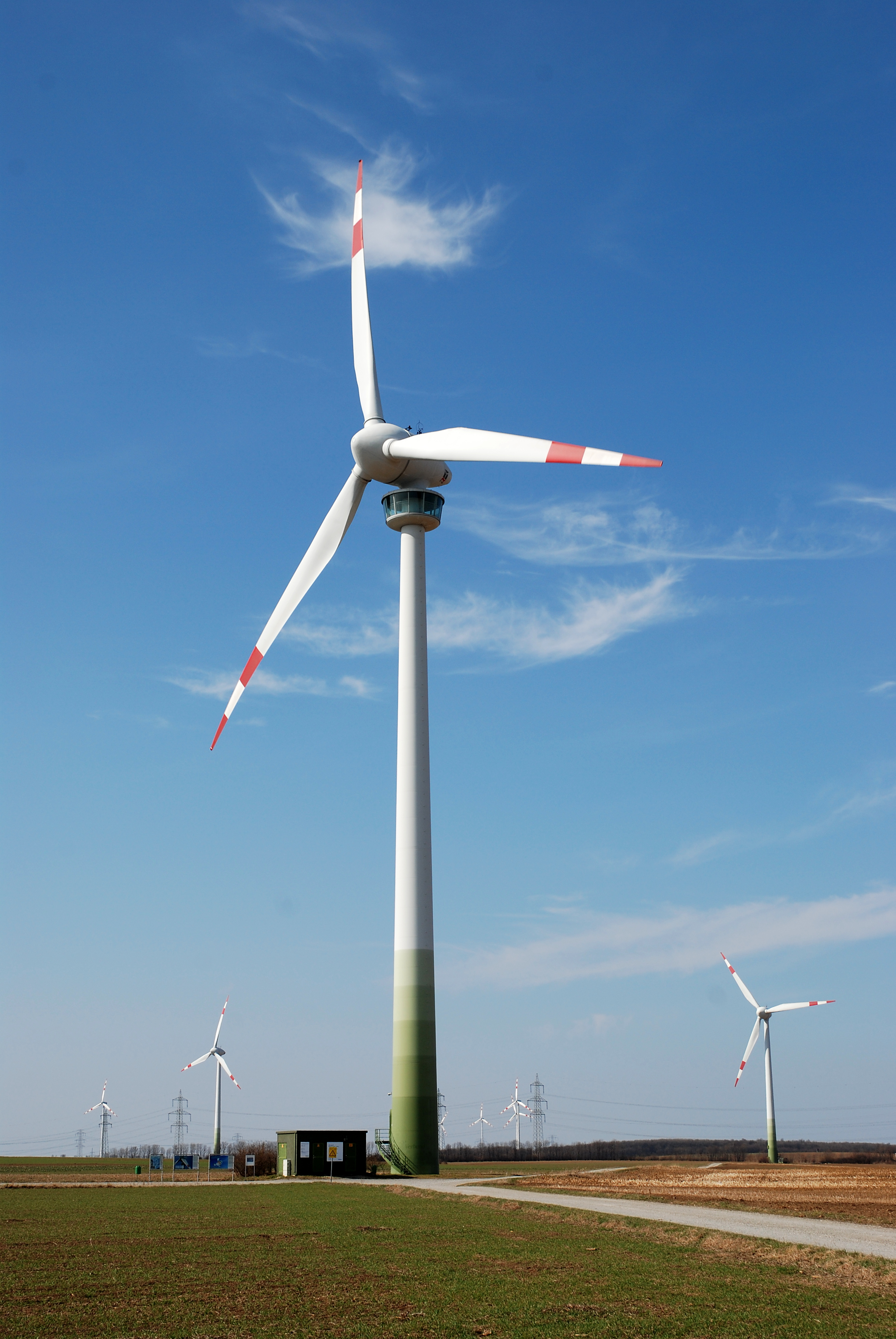 This picture shows a wind turbine with an observation deck. The wind turbine is part of the wind park Bruck an der Leitha in Lower Austria.